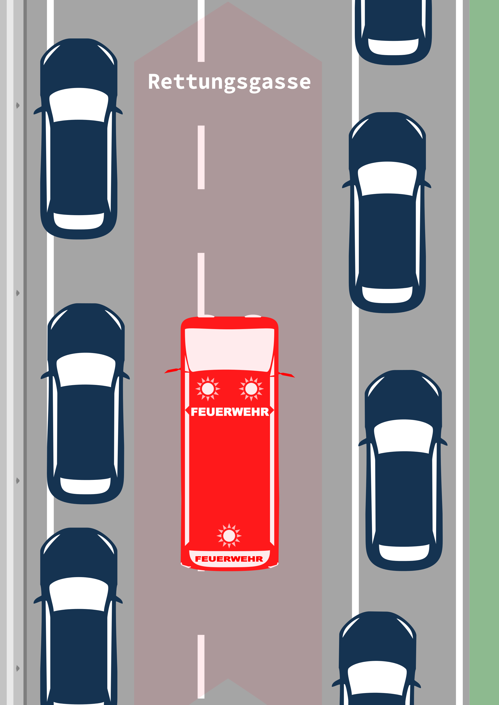 emergency corridor for two lanes - obligations in the case of congestion in Austria